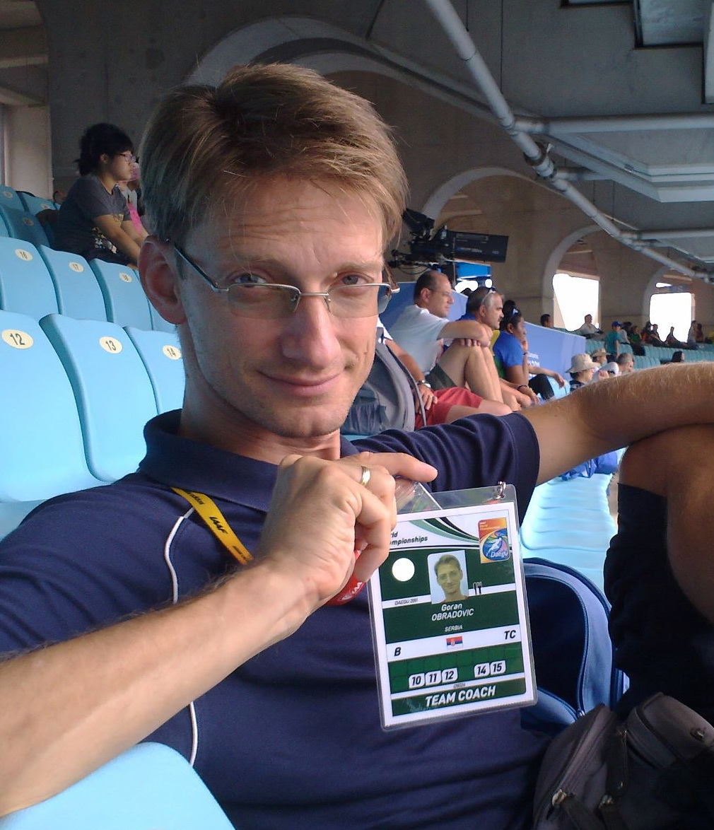 Daegu 2011